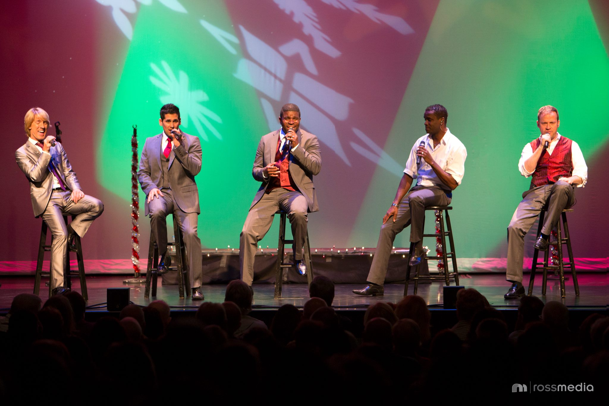 Rockapella at their December 20, 2013 concert with new band member Calvin Jones